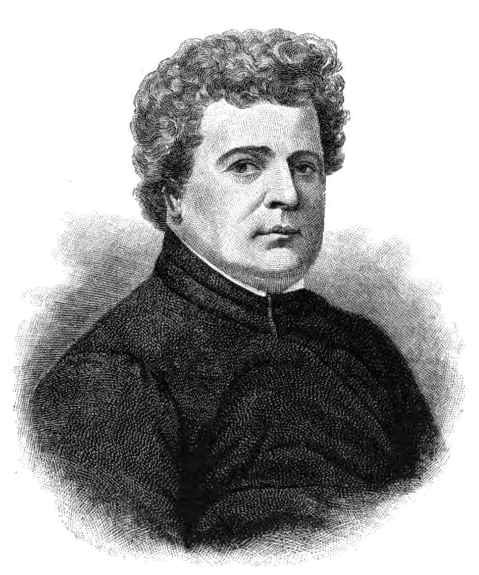 Rev. Thomas F. Mulledy, S.J., president of Georgetown University